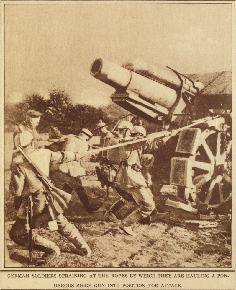 Photograph showing German troops positioning a 21 cm Mörser 10 (21 cm siege howitzer model 1910) in City of Antwerp. Wearing pickelhaubes